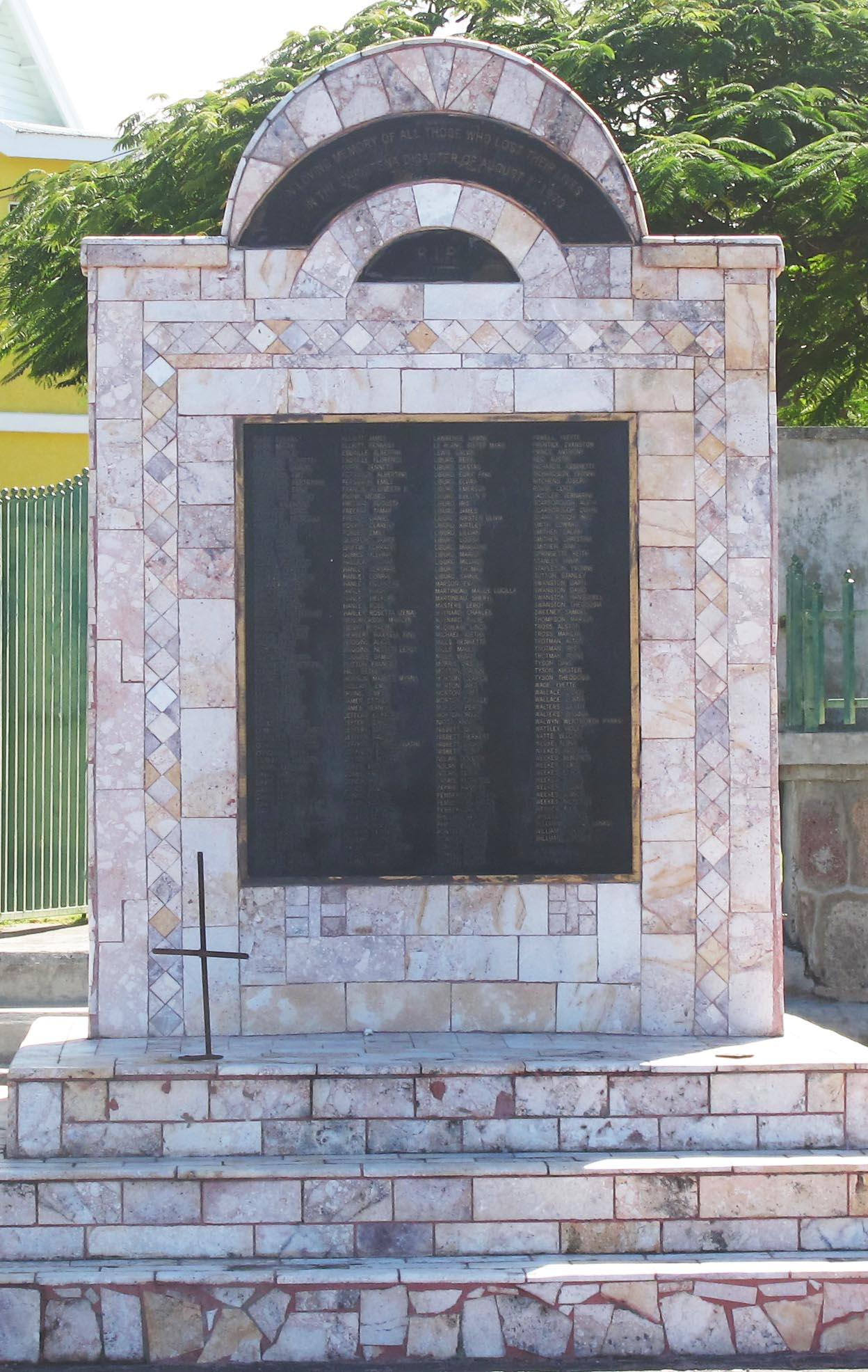 Facing inland, the Christena Memorial on Nevis includes a list of those who perished.